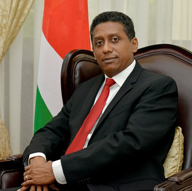 Danny Faure, President of the Republic of Seychelles